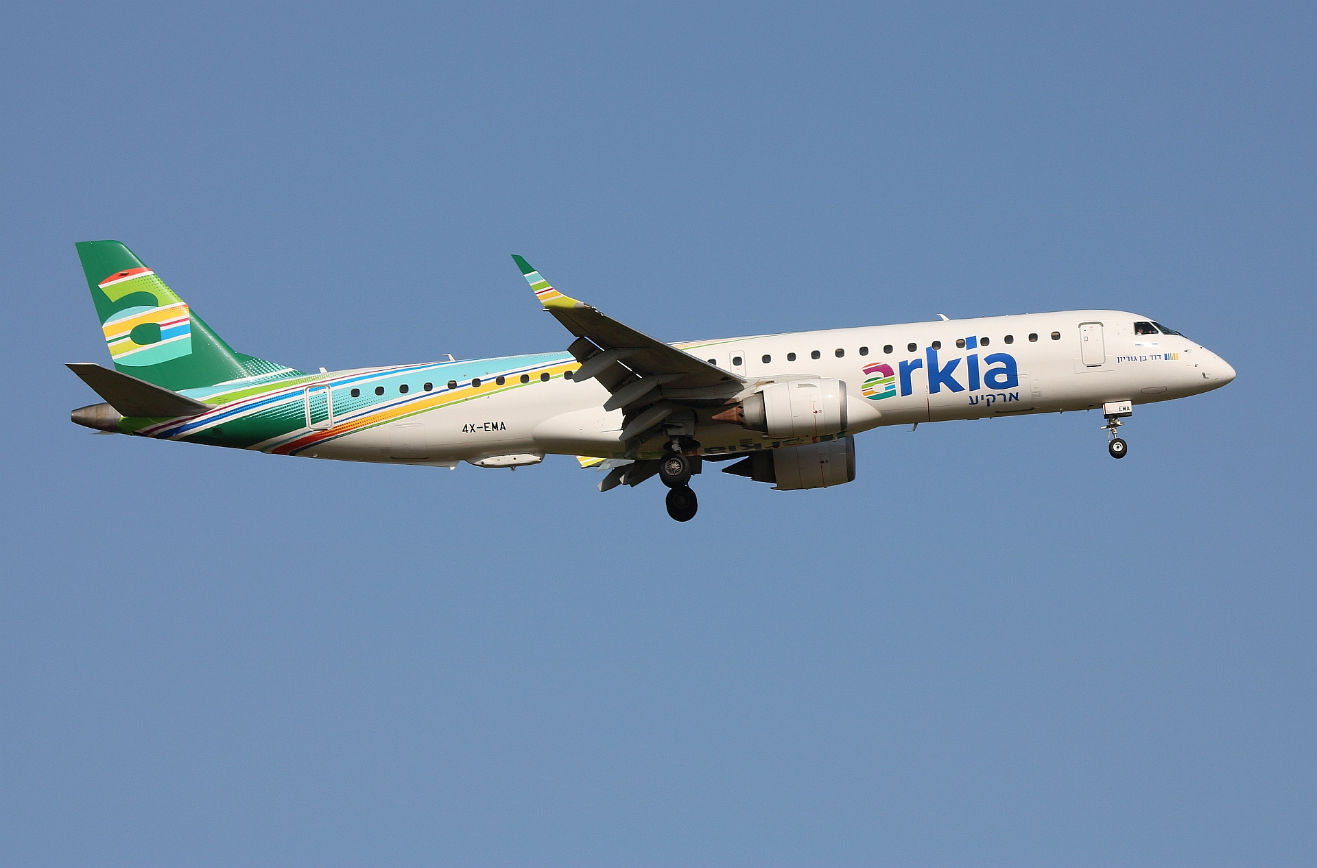 4X-EMA approaching Ben Gurion Airport